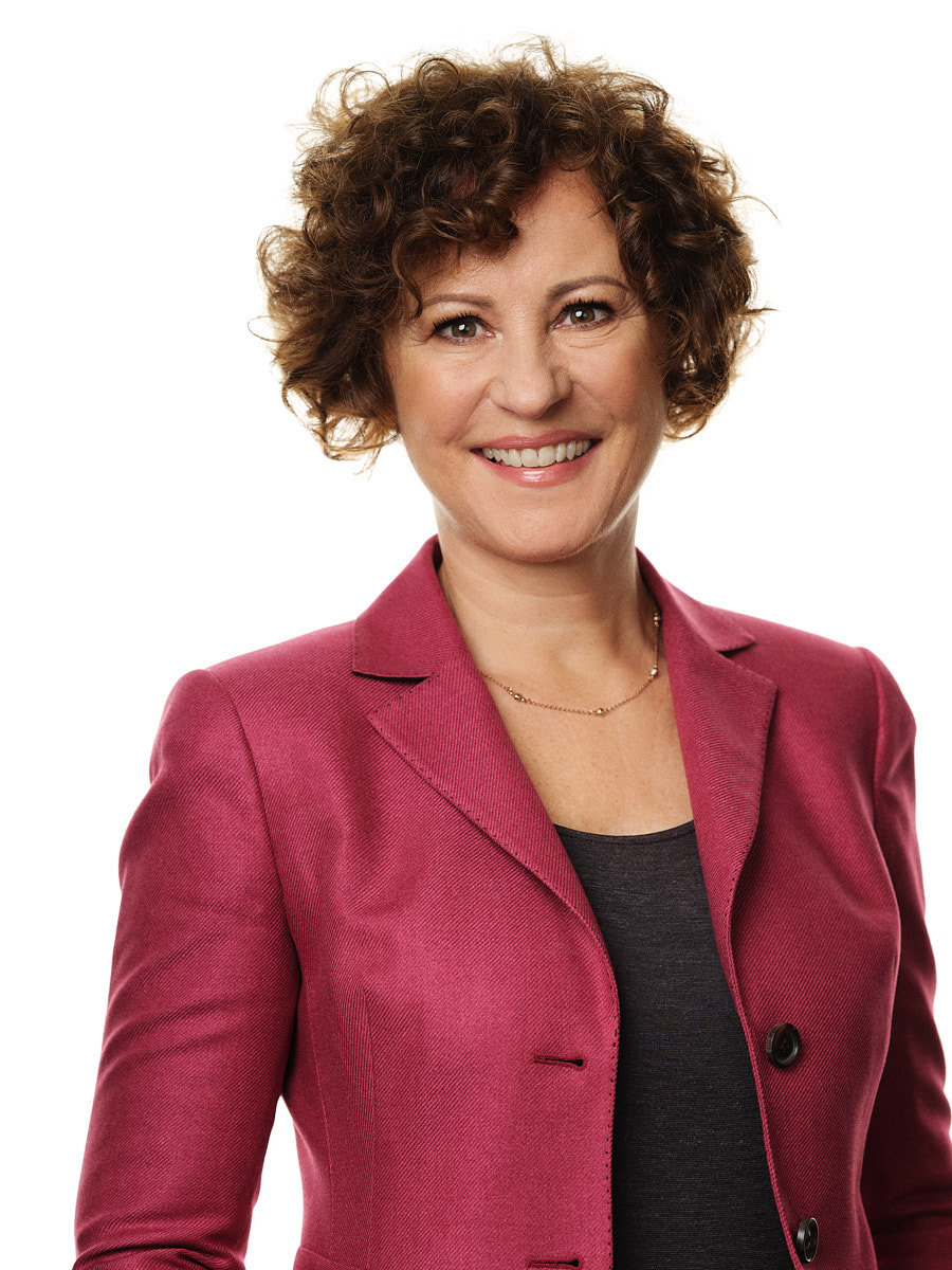 Fotoshooting von Fotograf: Johannes Diboky, im Auftrag von Beatrice Müller für Ihre Wikipedia Seite